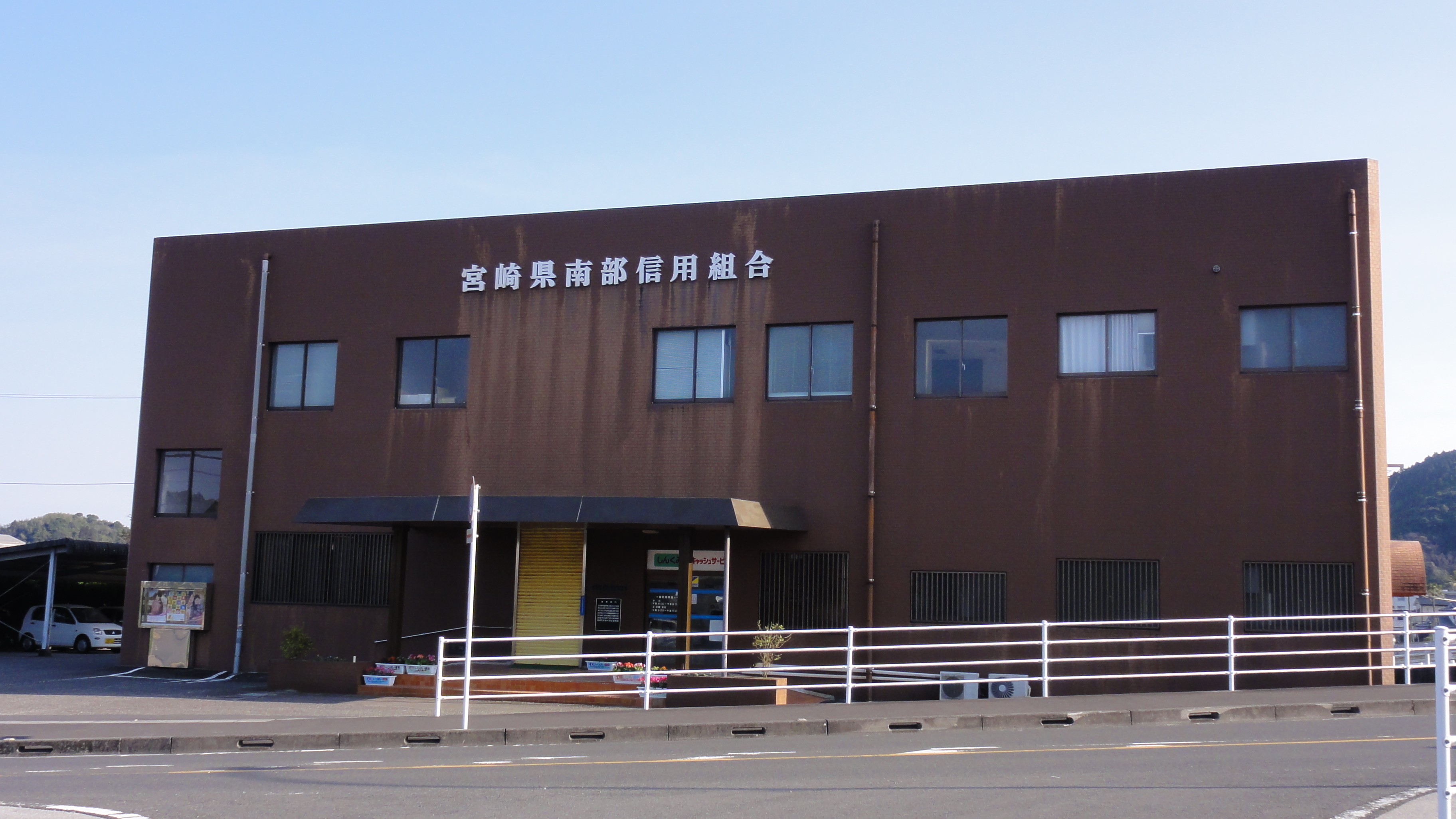 Miyazaki-ken nanbu Credit union(Head office),Miyazaki prefecture,Japan